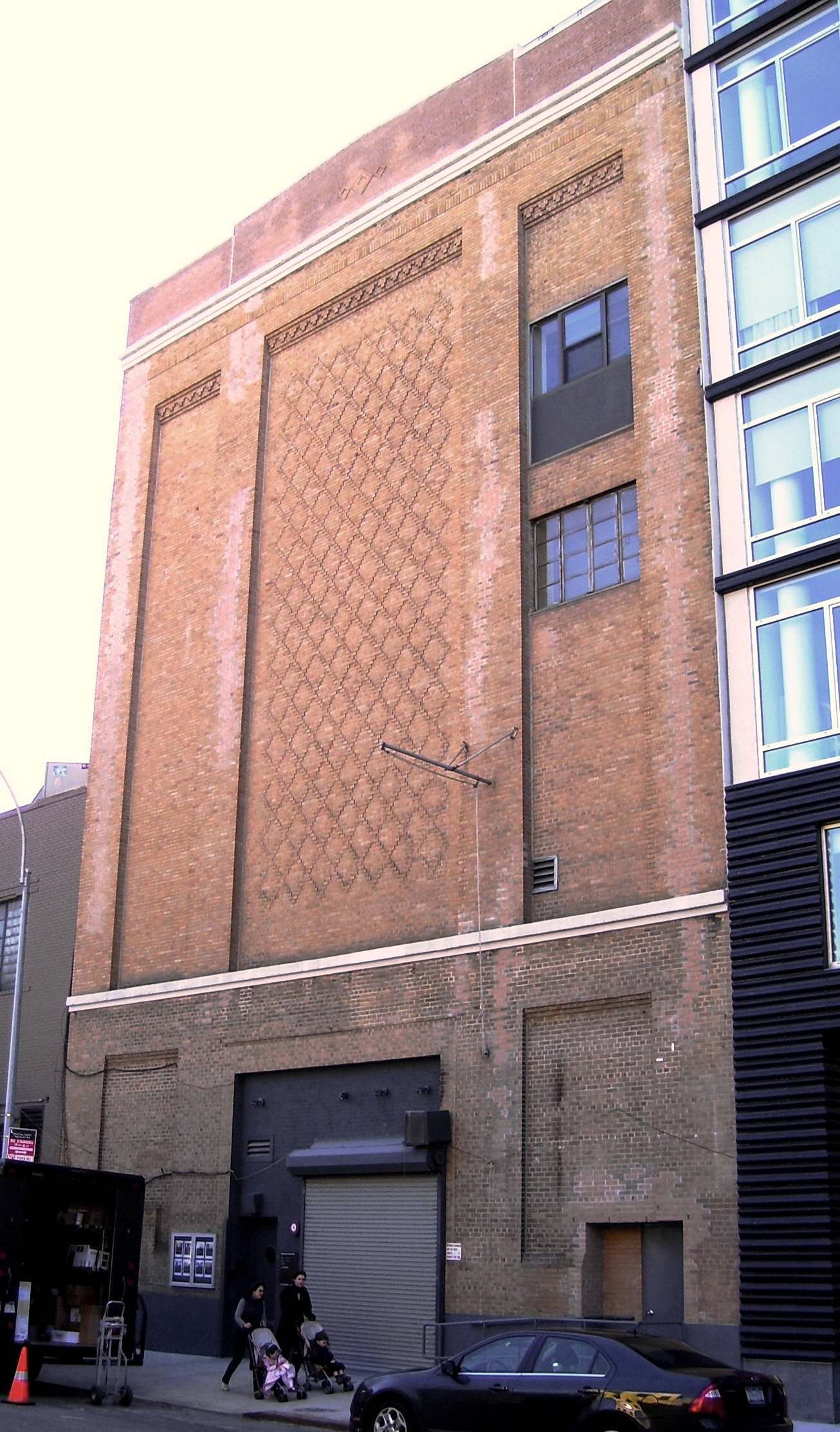 The Kitchen is a non-profit, multi-disciplinary art and performance space located at at 512 West 19th Street, between Tenth and Eleventh Avenues in the Chelsea neighborhood of Manhattan, New York City. It takes its name from its original (1971) location, the kitchen of the Mercer Arts Center. It has been located in this building since 1987.